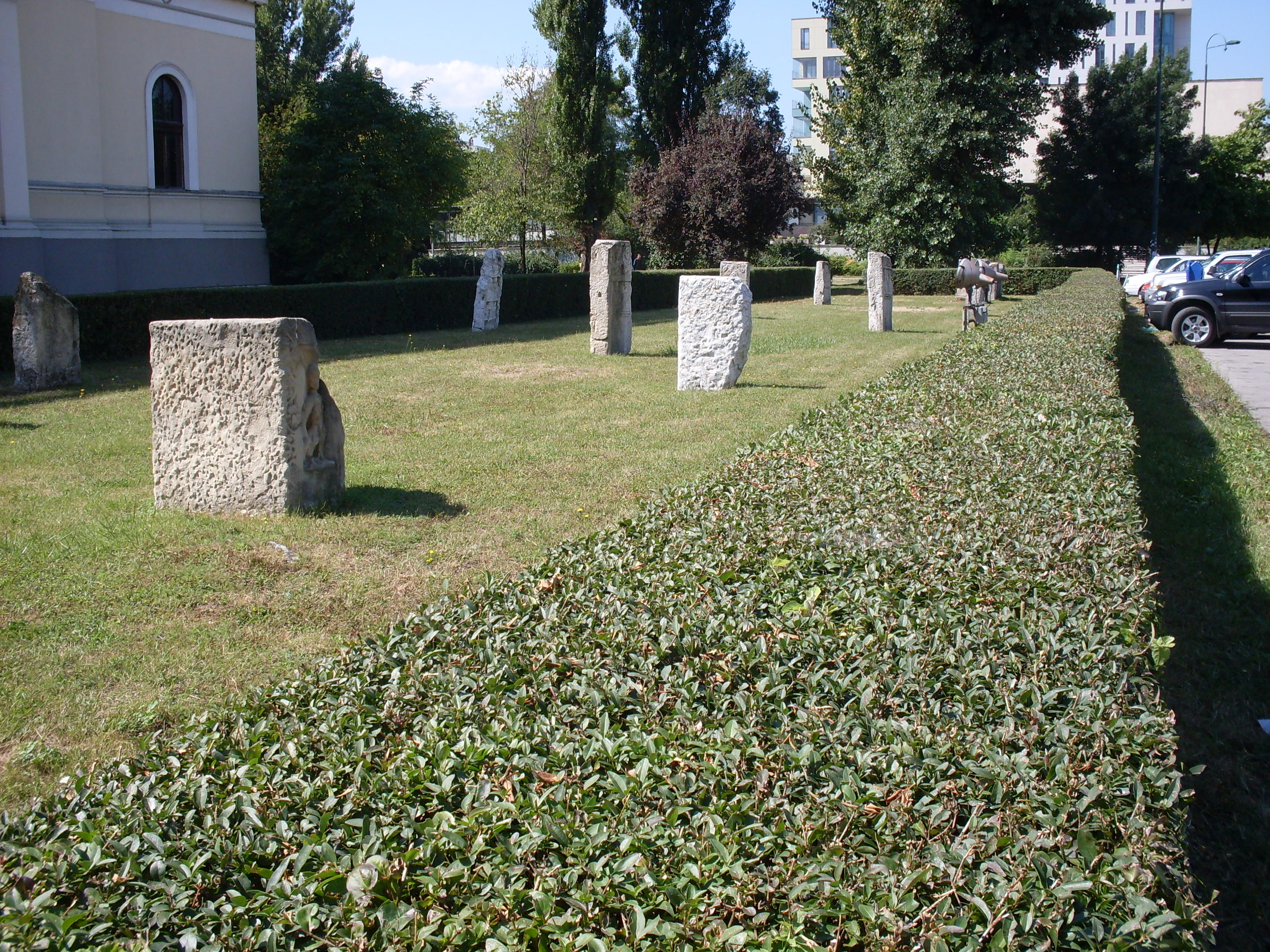 Ancient Roman gravestones in front of National Museum of Bosnia and Herzegovina